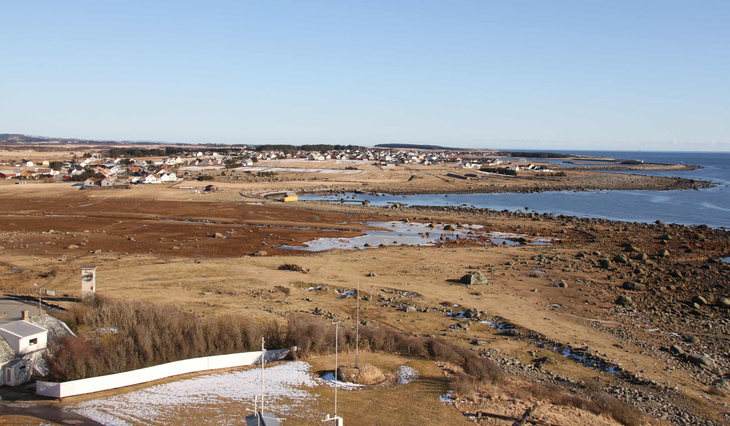 Image of motif from the western end of the Lista peninsula, Farsund municipality (Vest-Agder, Norway). The moraine out here is one of the few mainland parts of the rim called Ra (Raet), the main moraine of southern Norway stretching from Sweden to Lista, and made during the Younger Dryas cold periode (the glacier reemergence), c. 9.500 BC.